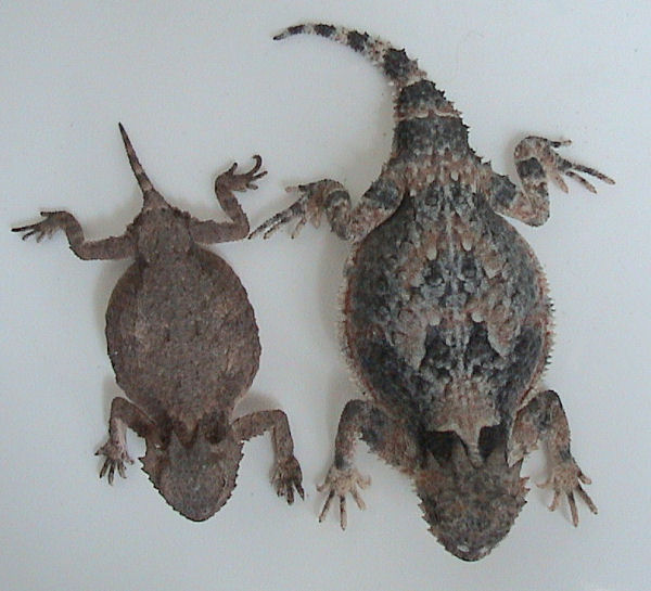 Phrynosoma modestum (right) and Phrynosoma platyrhinos (left) Photographer: [bryancrossman] horned lizard Commons:Category:Phrynosoma modestum Commons:Category:Phrynosoma platyrhinos